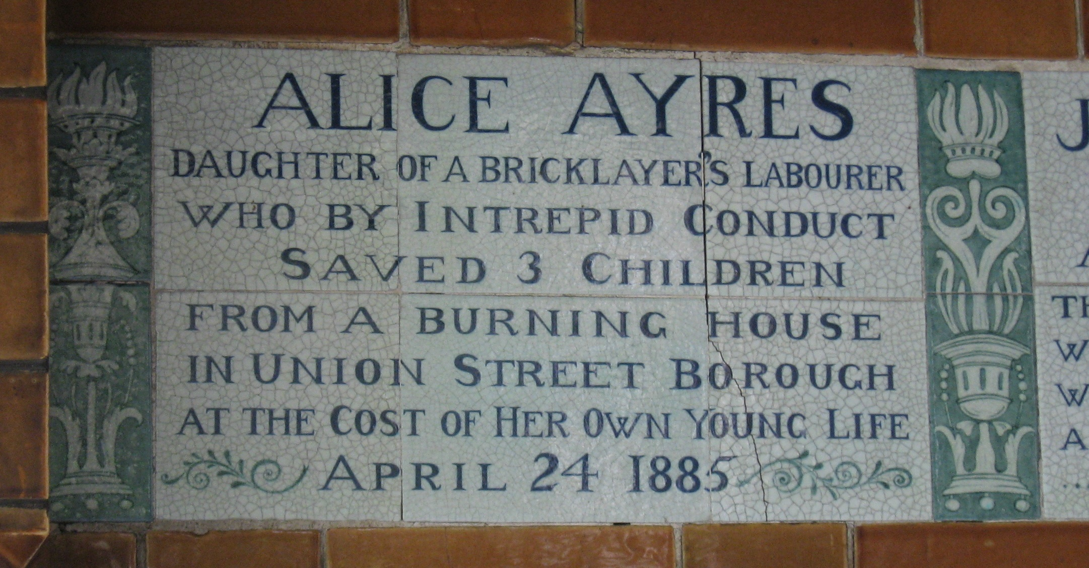 Tile in Postman's Park in the City of London commemorating Alice Ayres. Featured in the 2004 film, Closer.